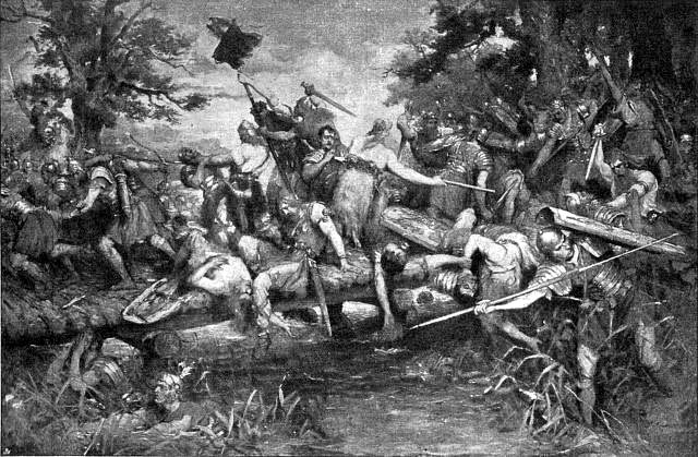 The unfortunate campaign of Germanicus in northern Germany